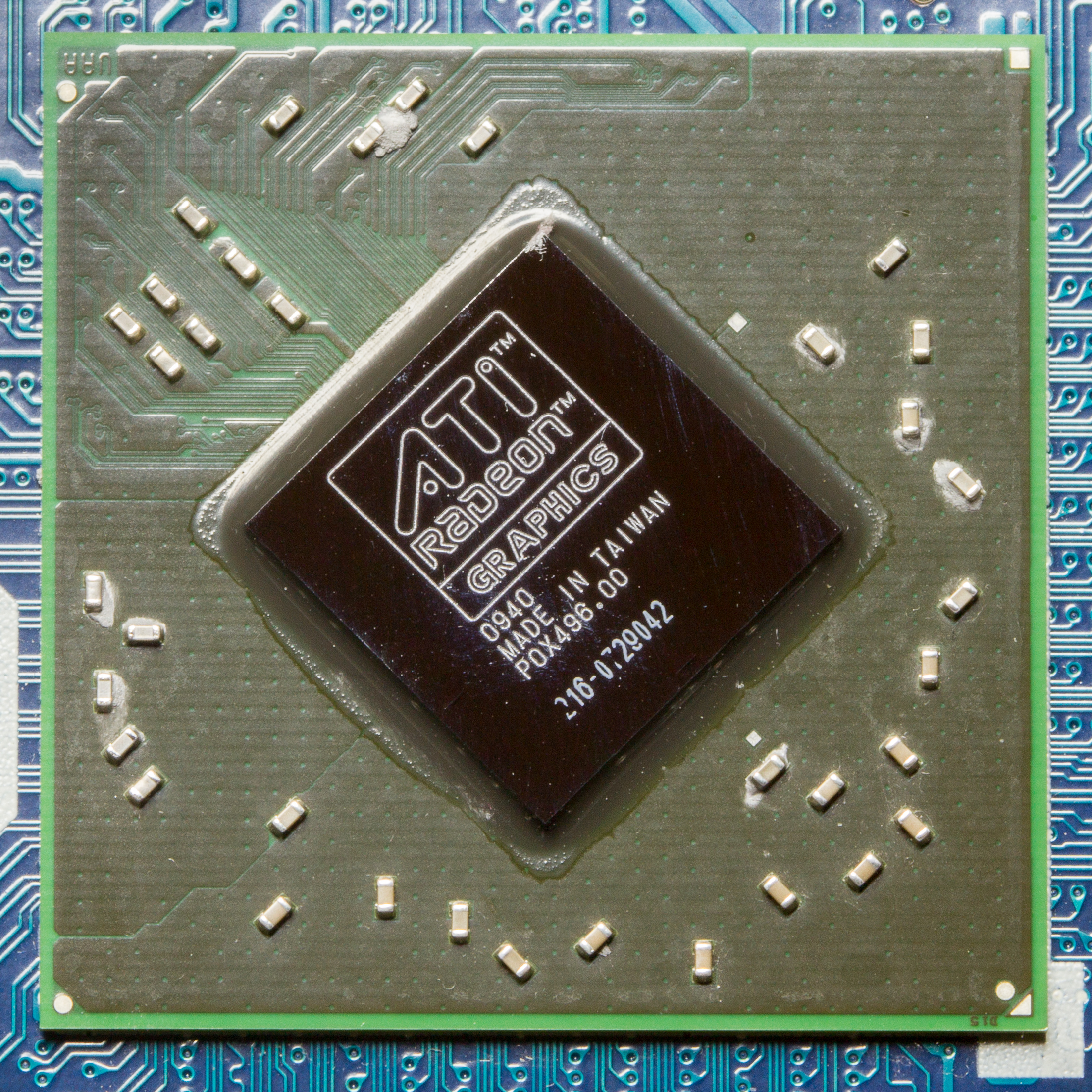 ATI Radeon Graphics HD4650